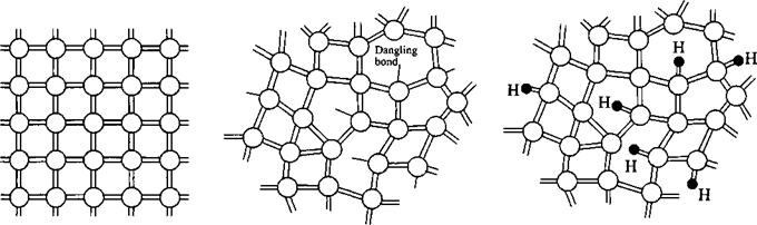 Schematic illustration of the structures of crystalline silicon, amorphous silicon, and amorphous hydrogenated silicon